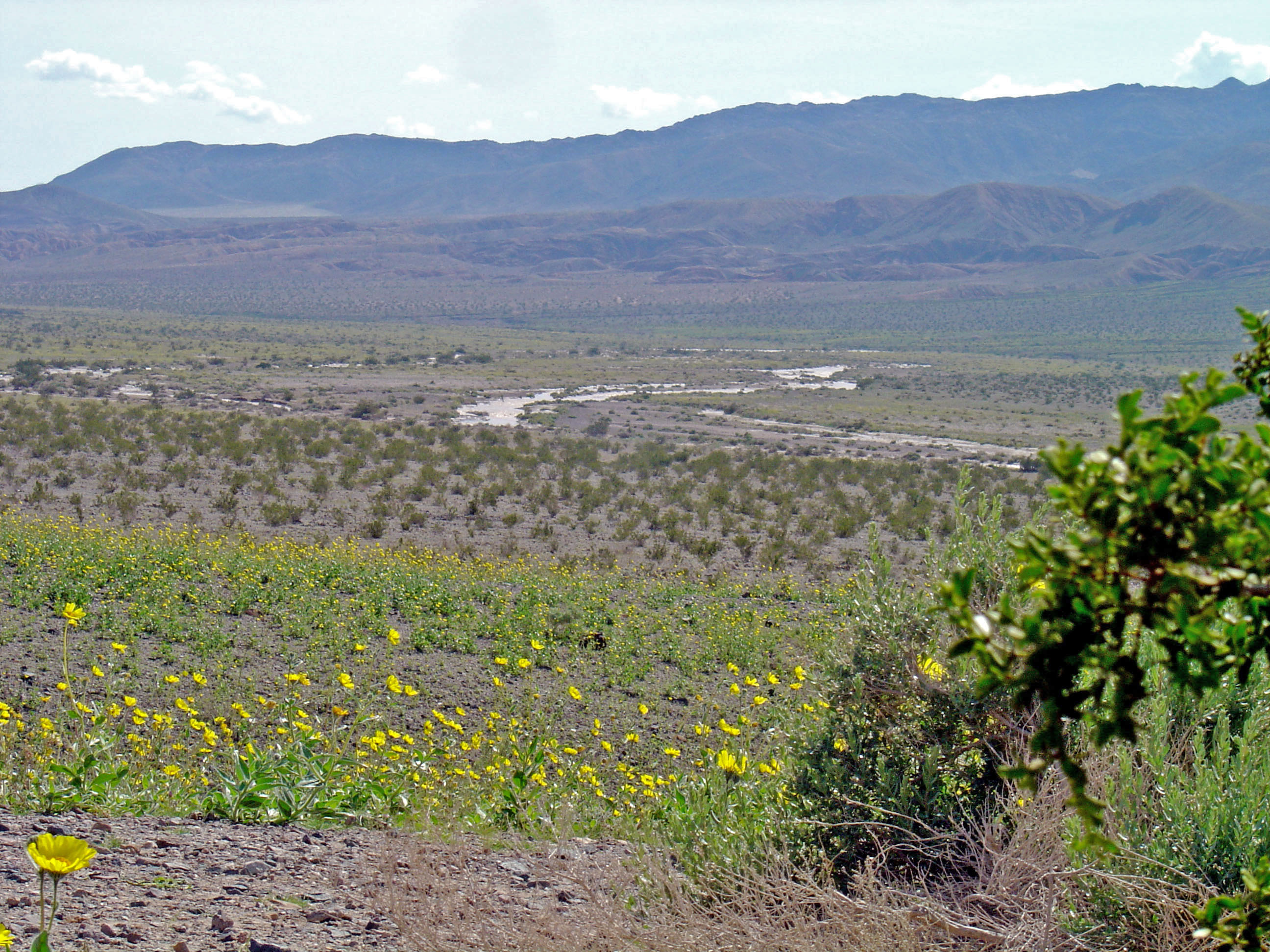 The Amargosa River near Shoreline Butte — entering southern Death Valley from the Amargosa Desert, in eastern California